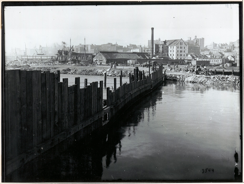 Title: Darling Harbour Dated: No date Digital ID: Rights: No known copyright restrictions We'd love to if you use our photos/documents. Many other photos in our collection are available to view and browse on our website using